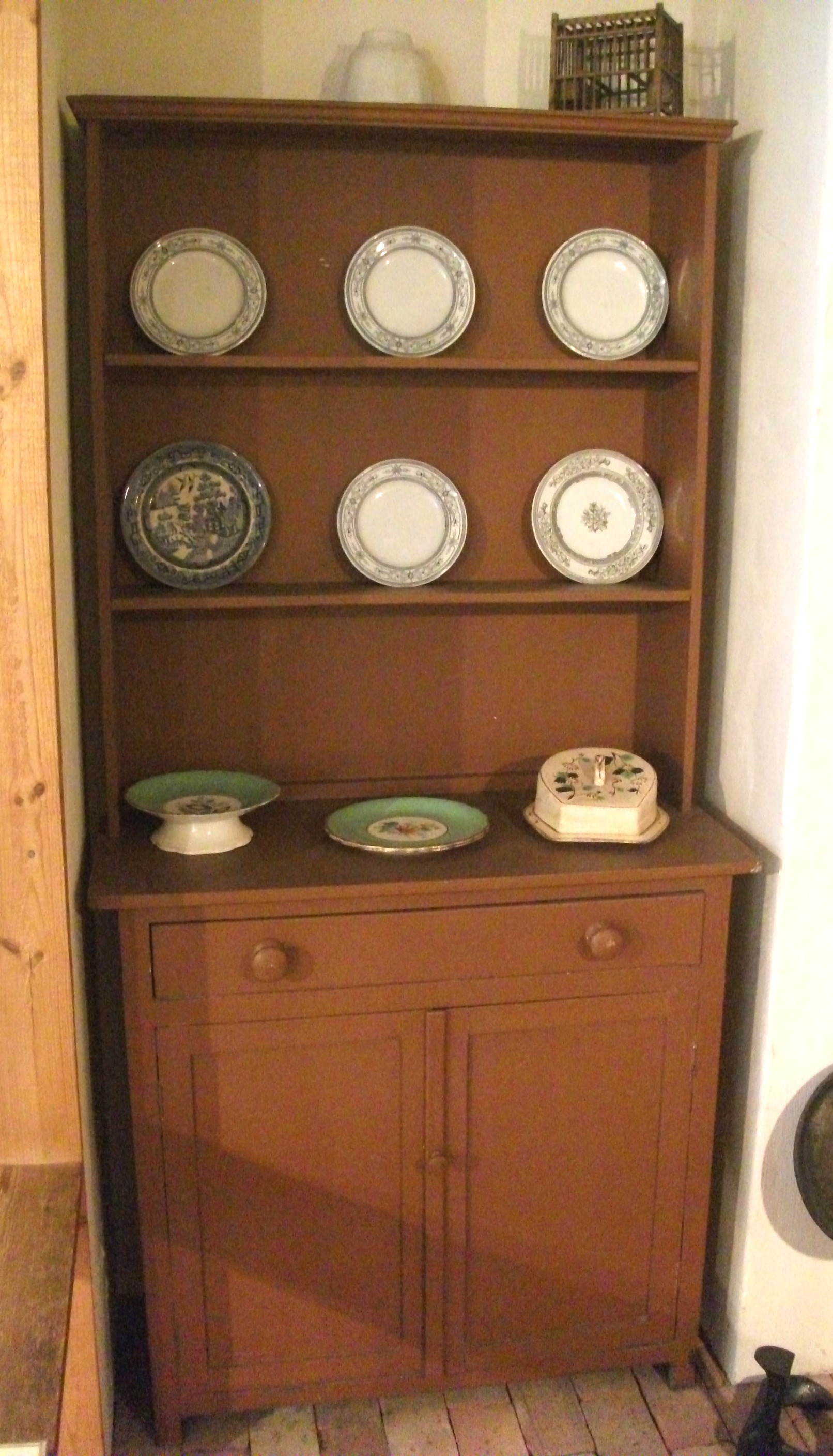 A Welsh dresser, with plates, on display in Bedford Museum.